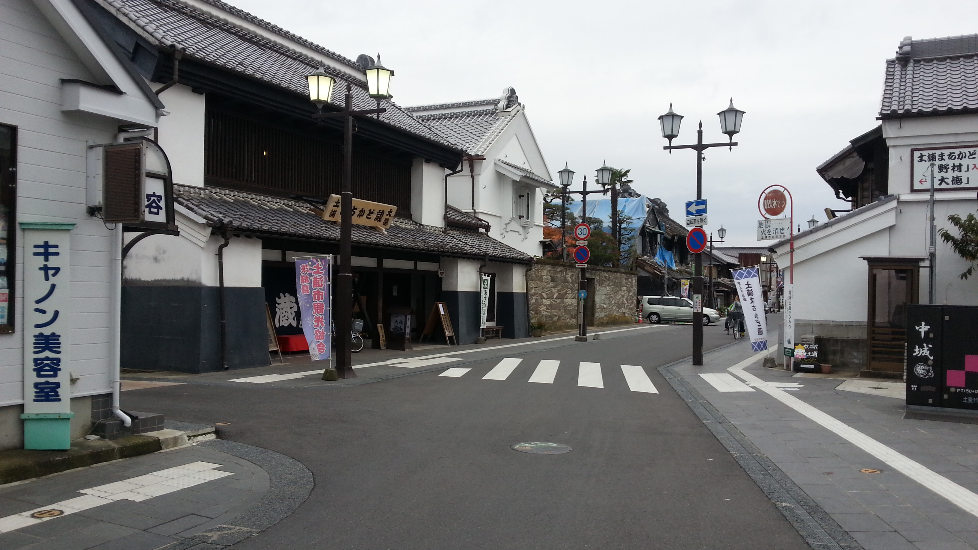 this picture was taken at chuo1 in Tsuchiura